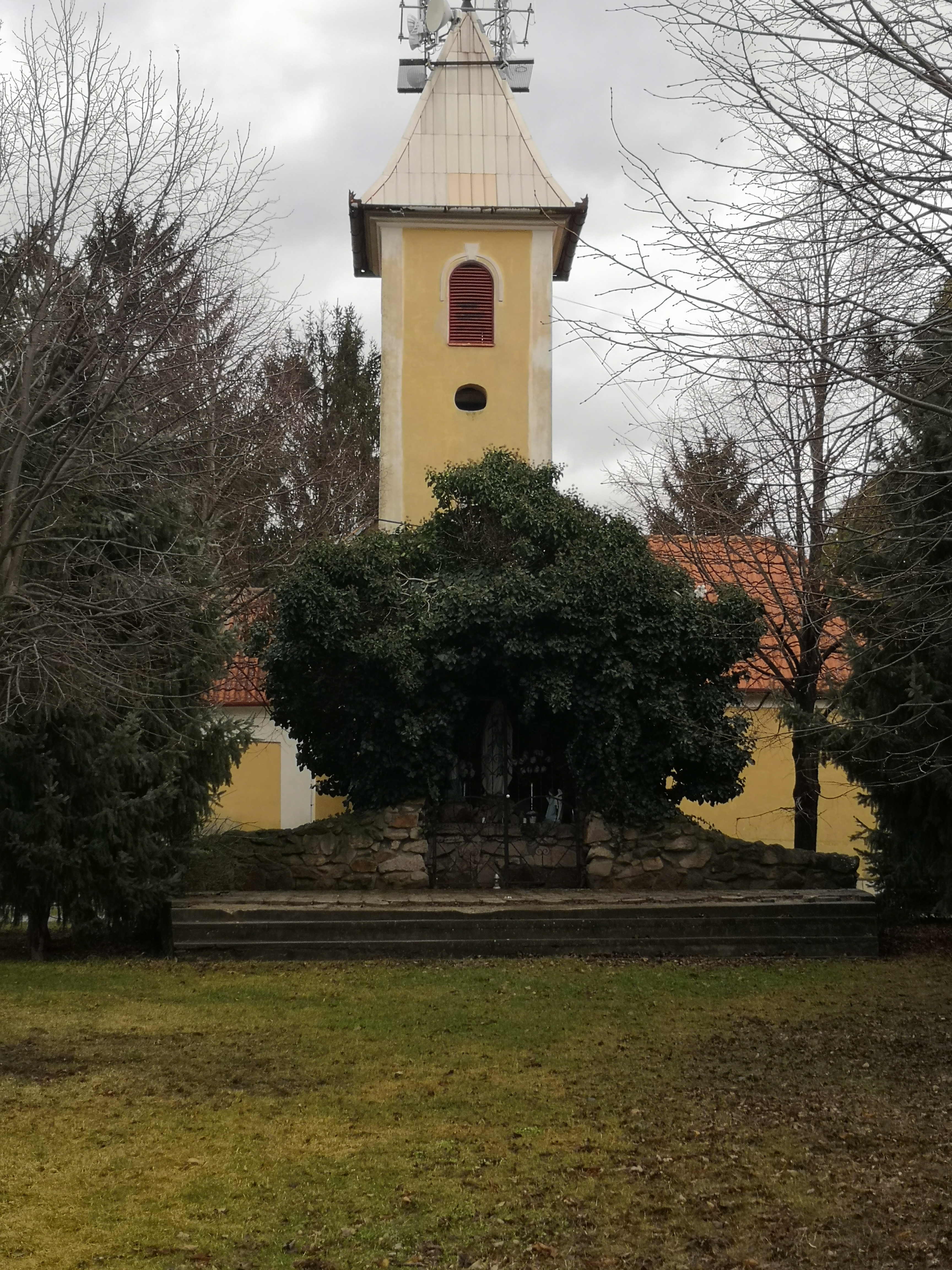 Classicistic Church of Nativity of Virgin Mary in Pata (old church) with stone chapel, Church was built in 1820